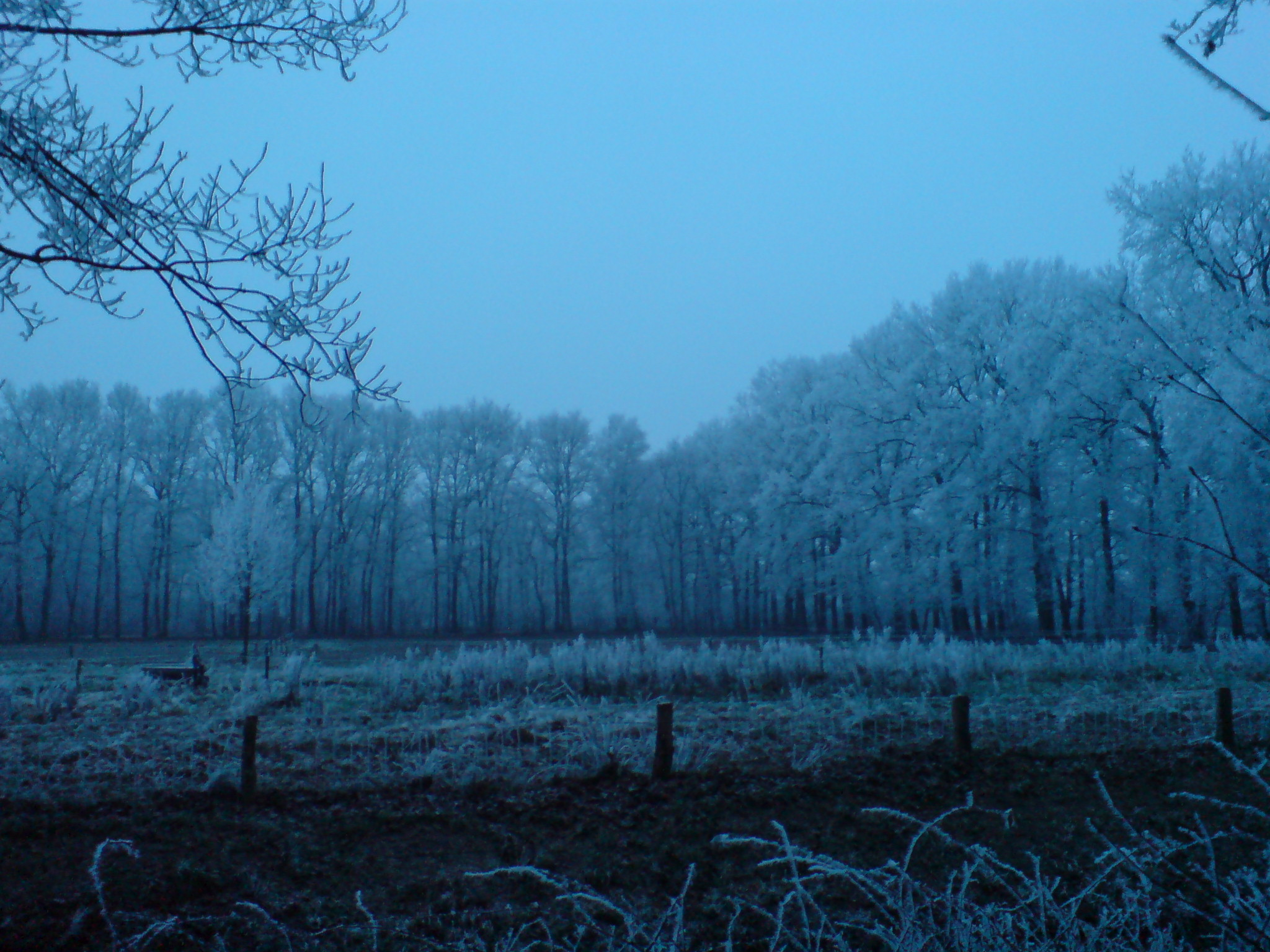 Moors near Dalfsen, Netherlands